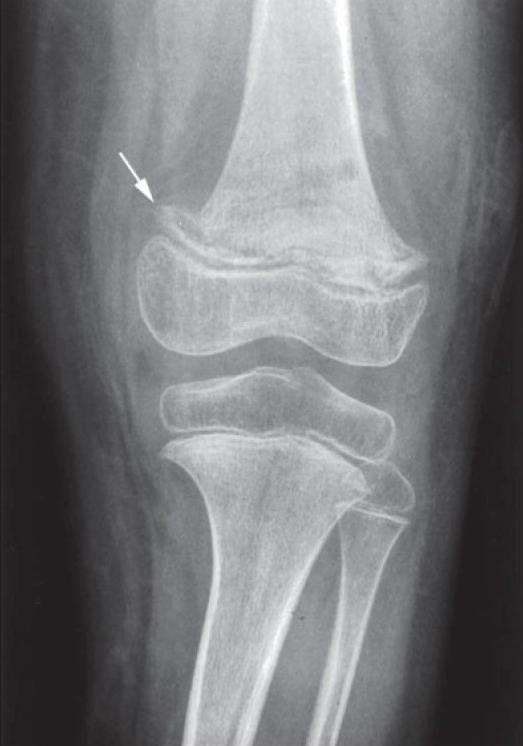 X-ray of the lower and upper limbs (arrow indicates scurvy line).